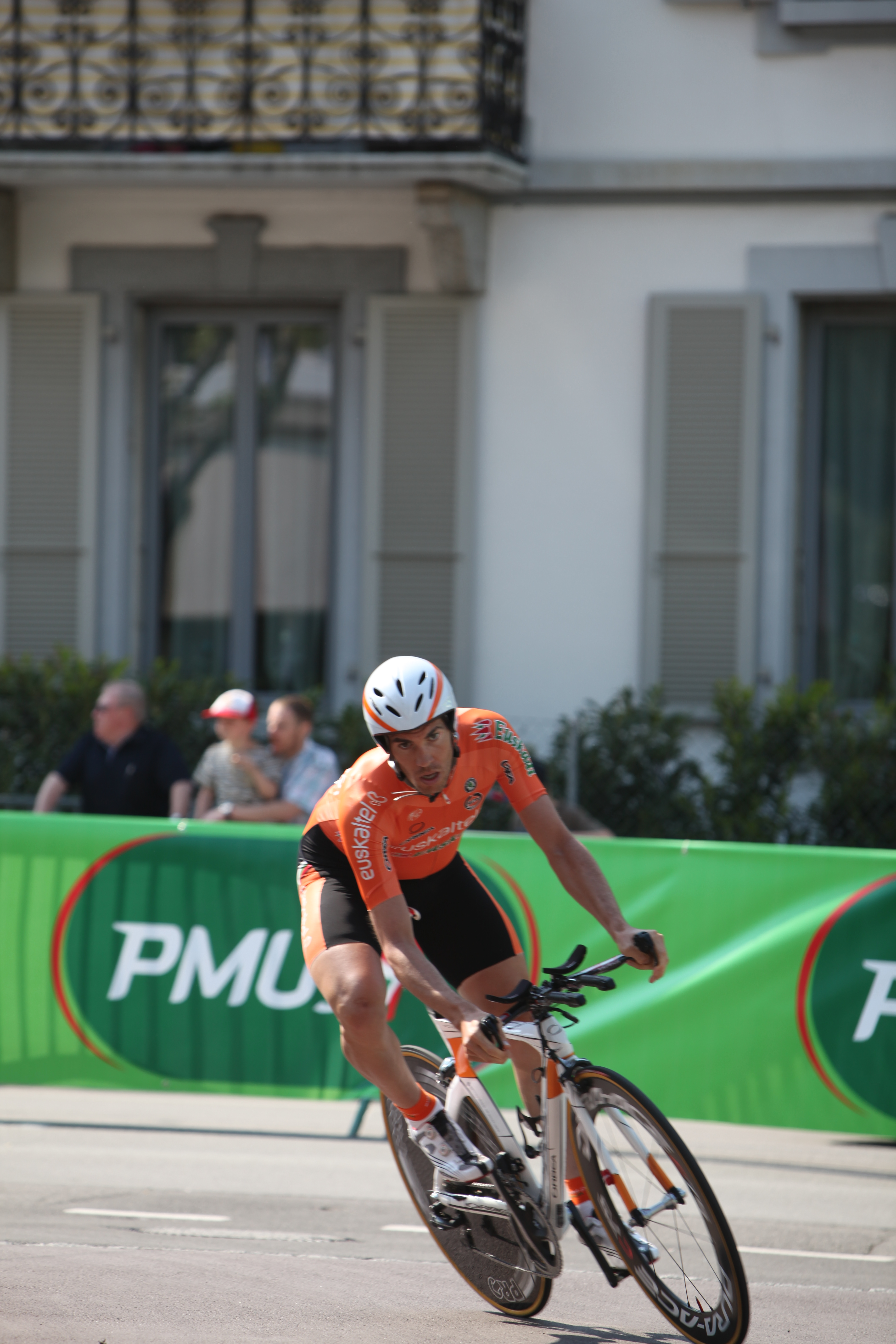 Koldo Fernandez de Larre at the prologue of the Tour de Romandie 2011